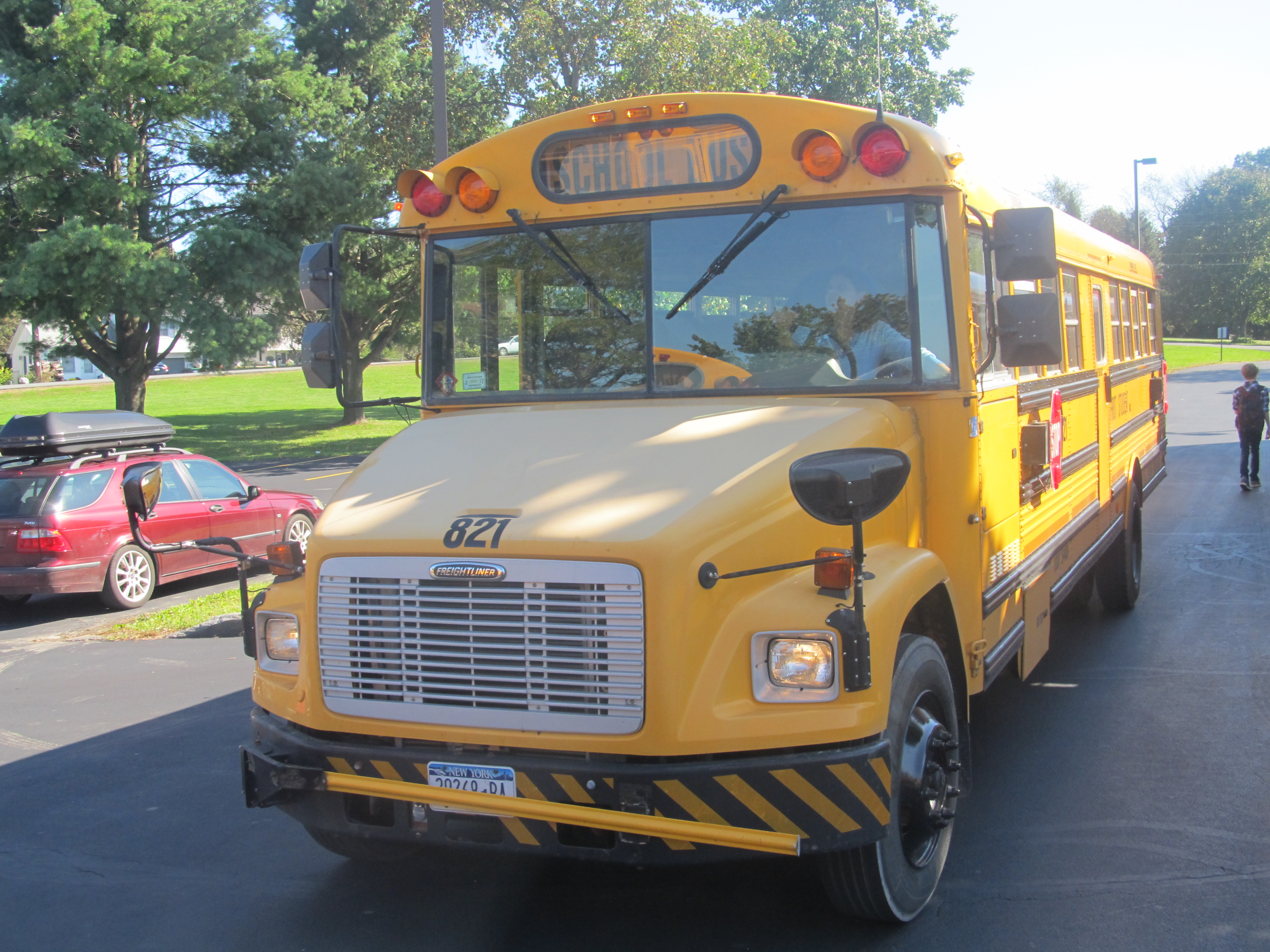 Number 821, a 2005 Thomas Built FS-65 model Freighliner with low head room.